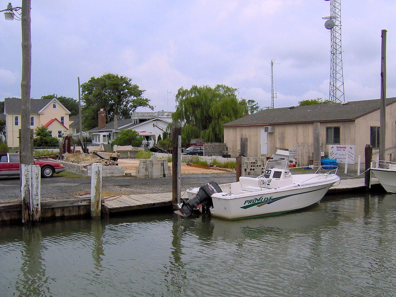 Main dock at the town of Ewell.